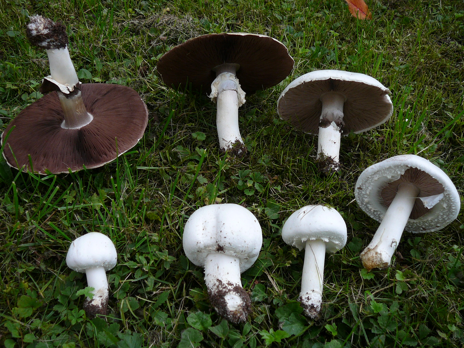 Agaricus arvensis, young to mature. Stuttgart, Germany. Found in August on a lawn, around a Maple tree. Arround 5 to 15cm of diameter. When cut: smell of anise and cap stay white. Very slow yellowish oxidation of the foot. Ring but no volva. Pinkish lamellas becoming brown as it gets old.